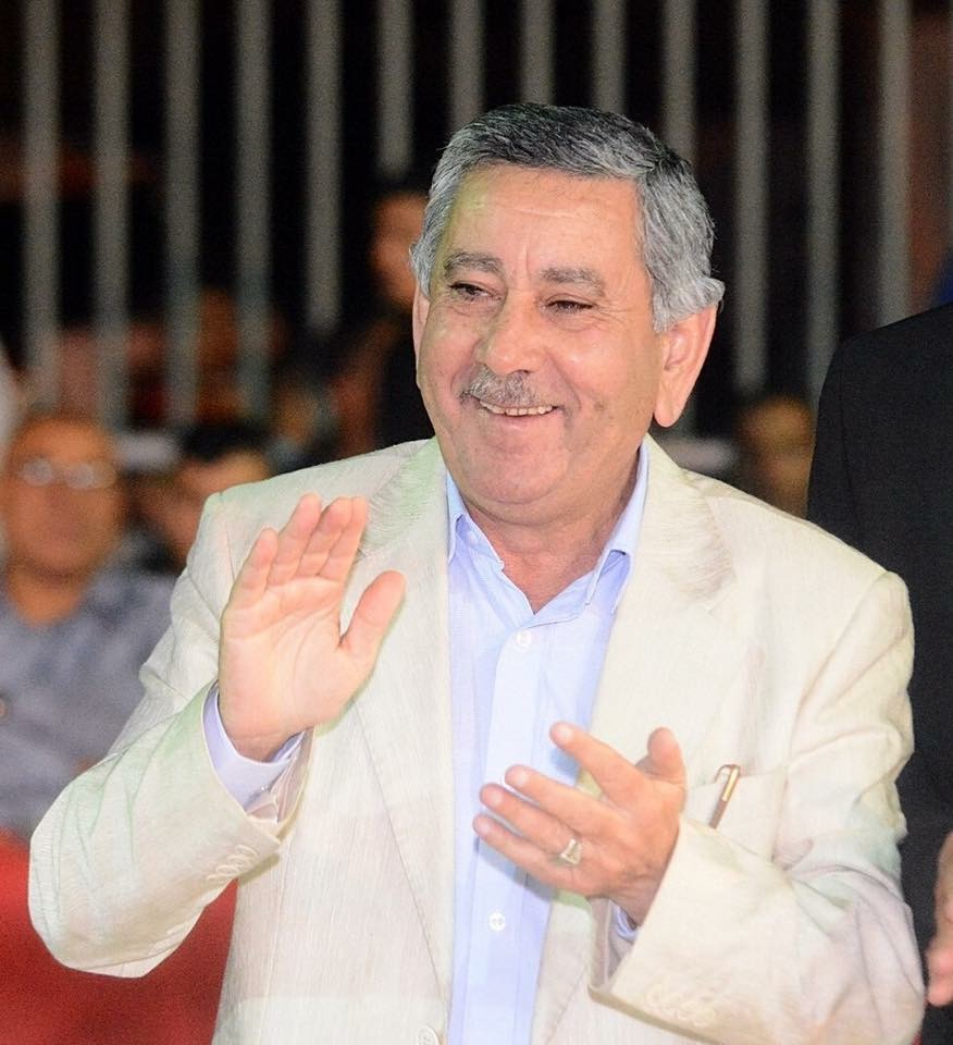 Talal Al Karnawai Mayor of Rahat